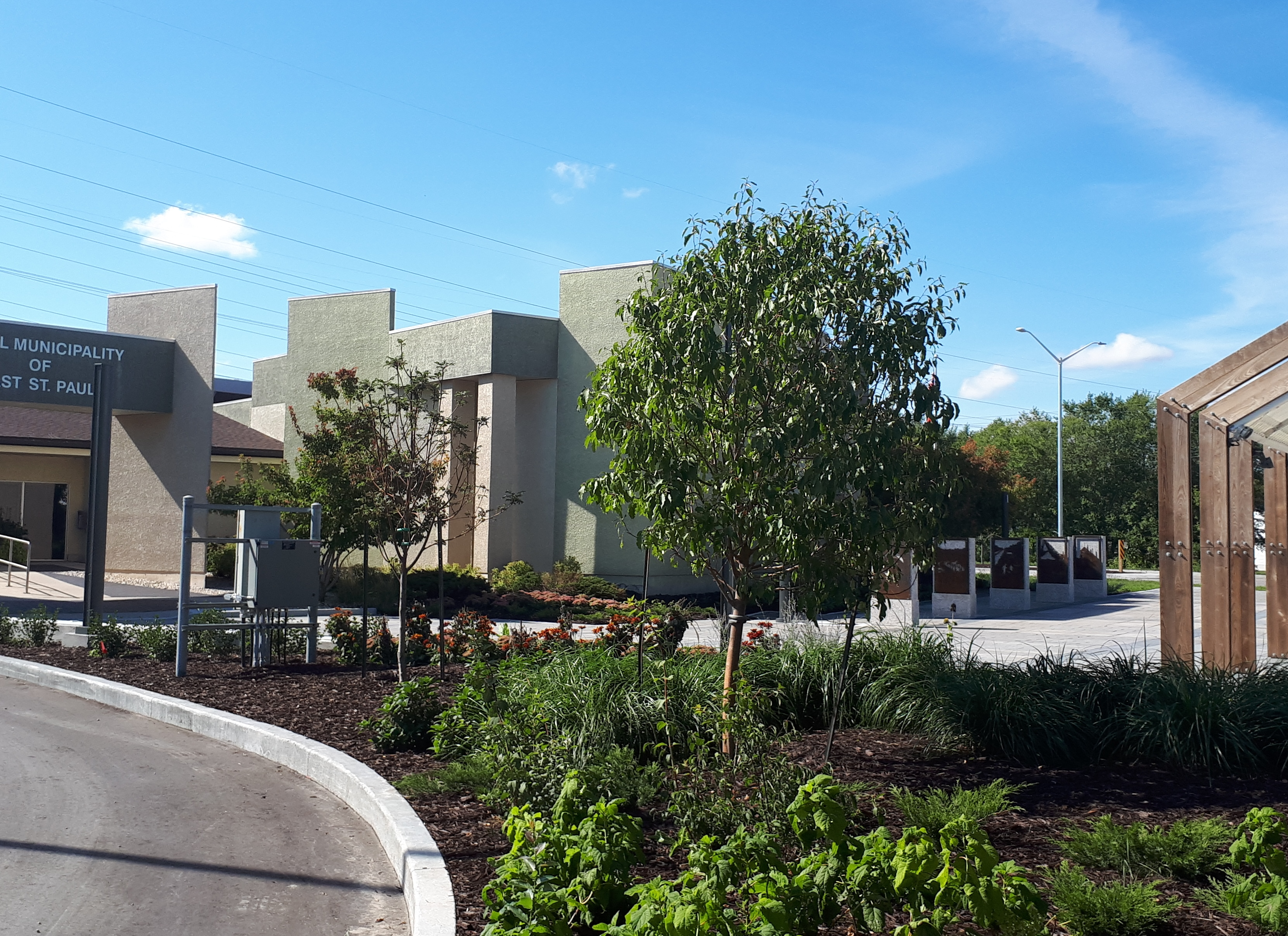 R.M. of East St. Paul municipal office and centennial plaza at Birds Hill, Manitoba